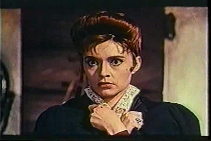 Screenshot of Yvonne Monlaur from the trailer for the film The Brides Of Dracula